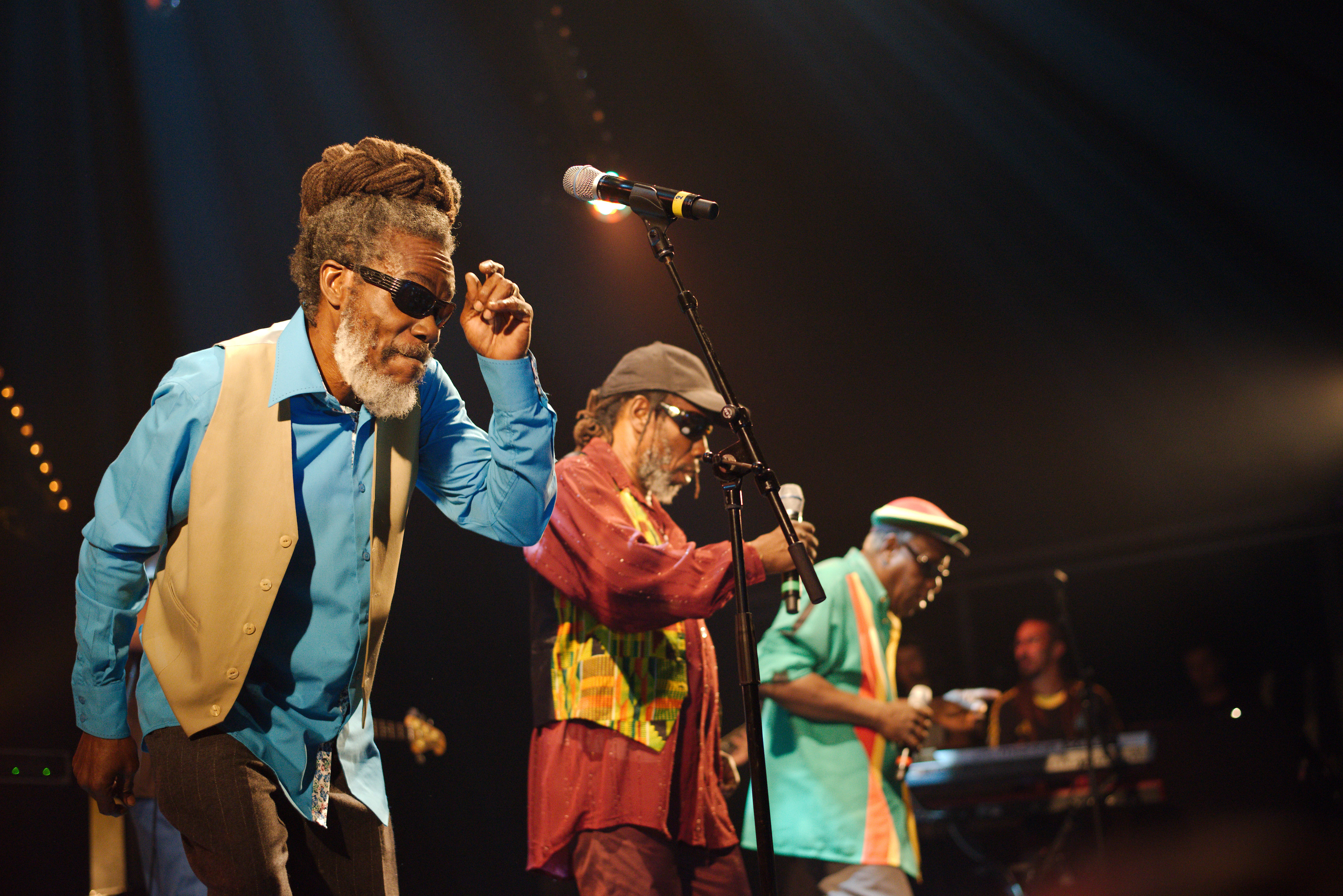 Pictures of "The Mighty diamonds"